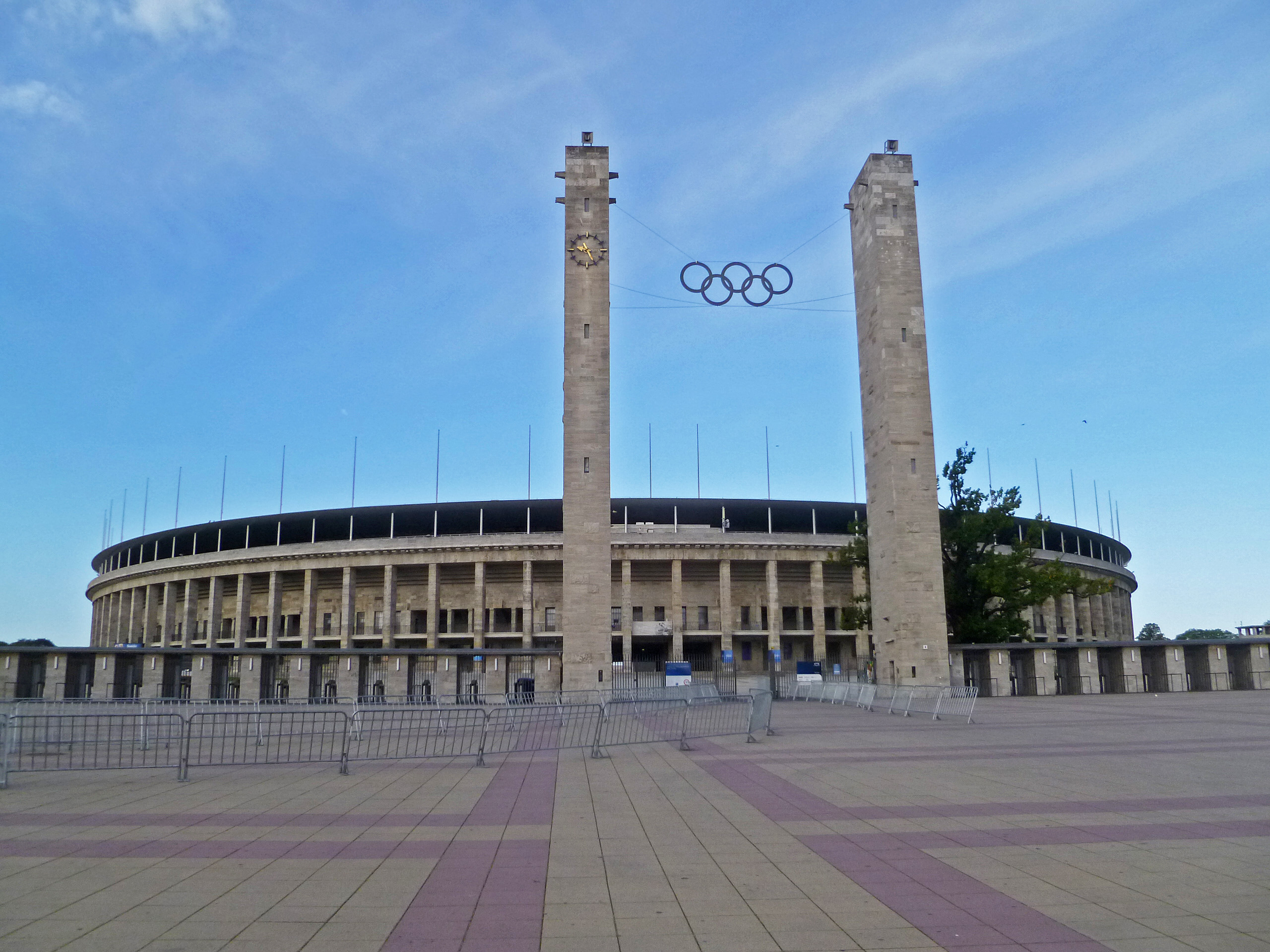 Olympiastadion Berlin, Germany